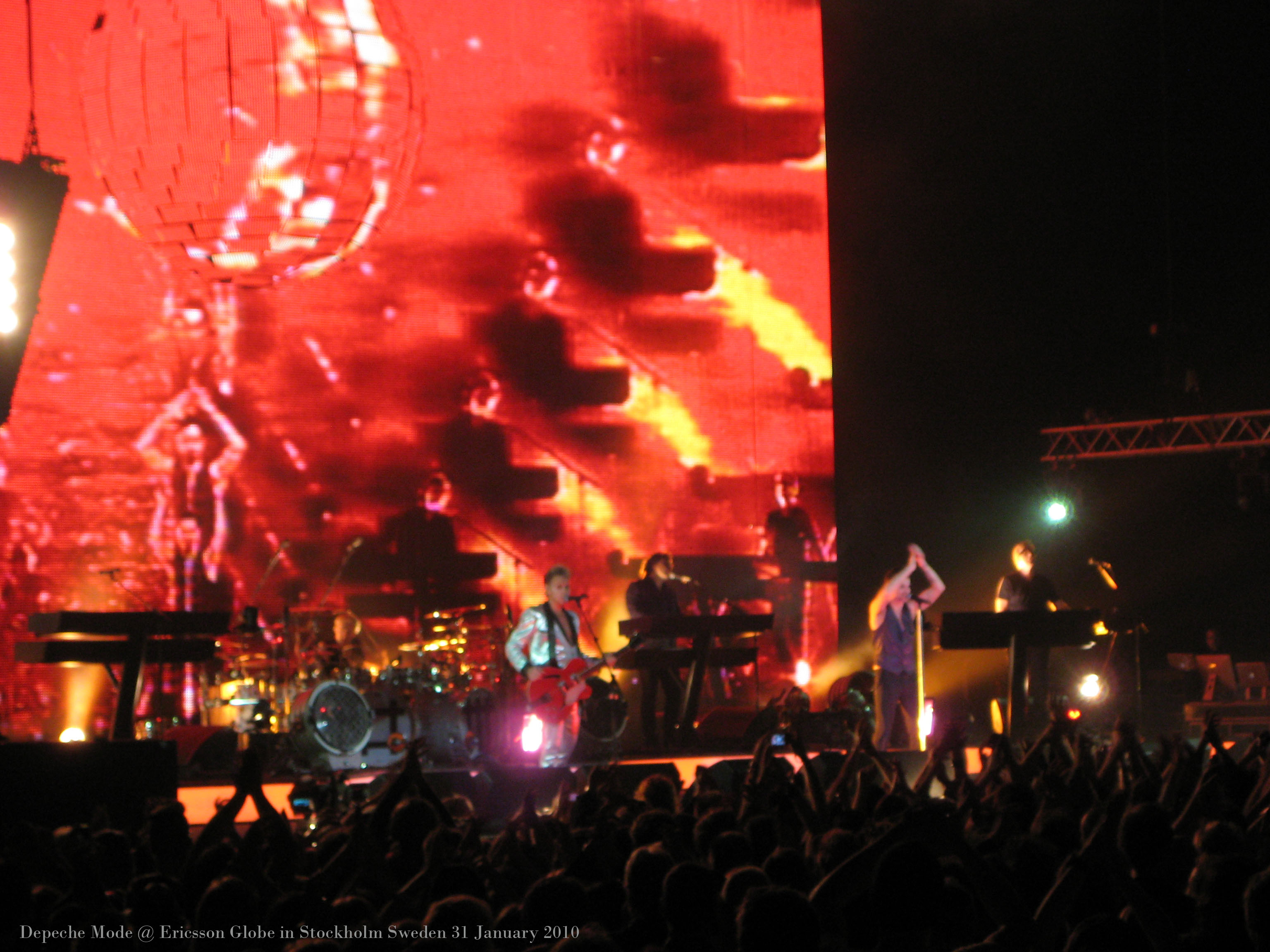 Depeche Mode @ Ericsson Globe in Stockholm Sweden 31 January 2010